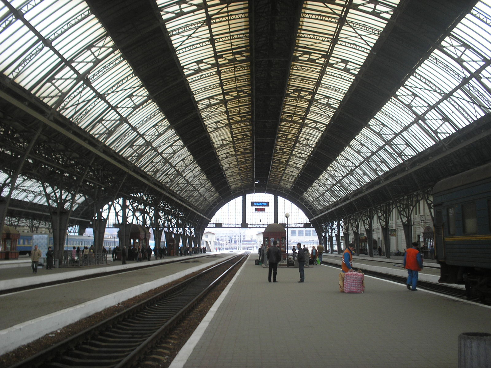 A design for the registers was constructed in Zieleniewski Maschinen und Wagonbau-Gesellschaft Werk Sanok, Autosan)